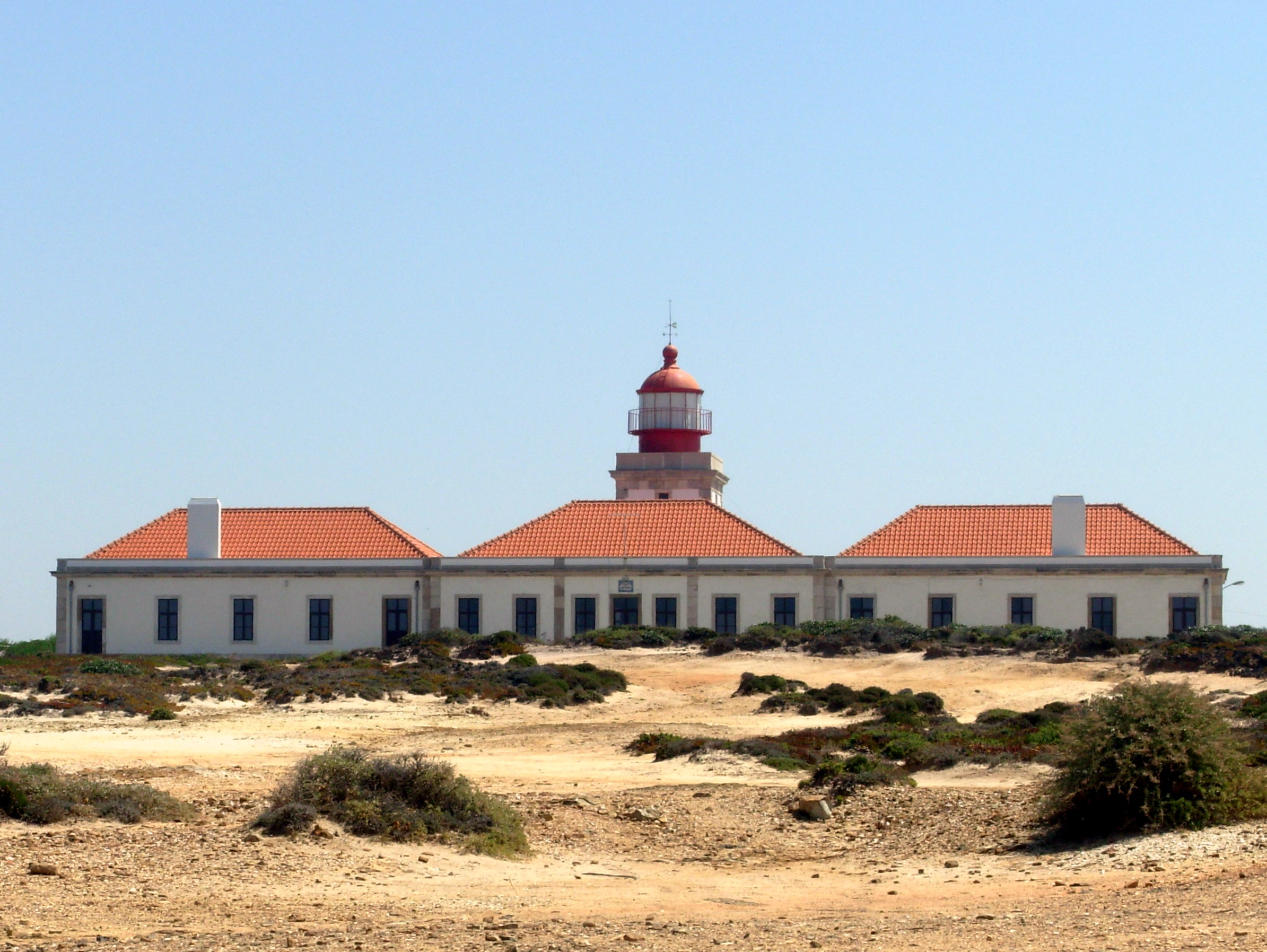 Cabo Sardão Lighthouse, at Vila de Odemira, Beja distrit, Portugal.